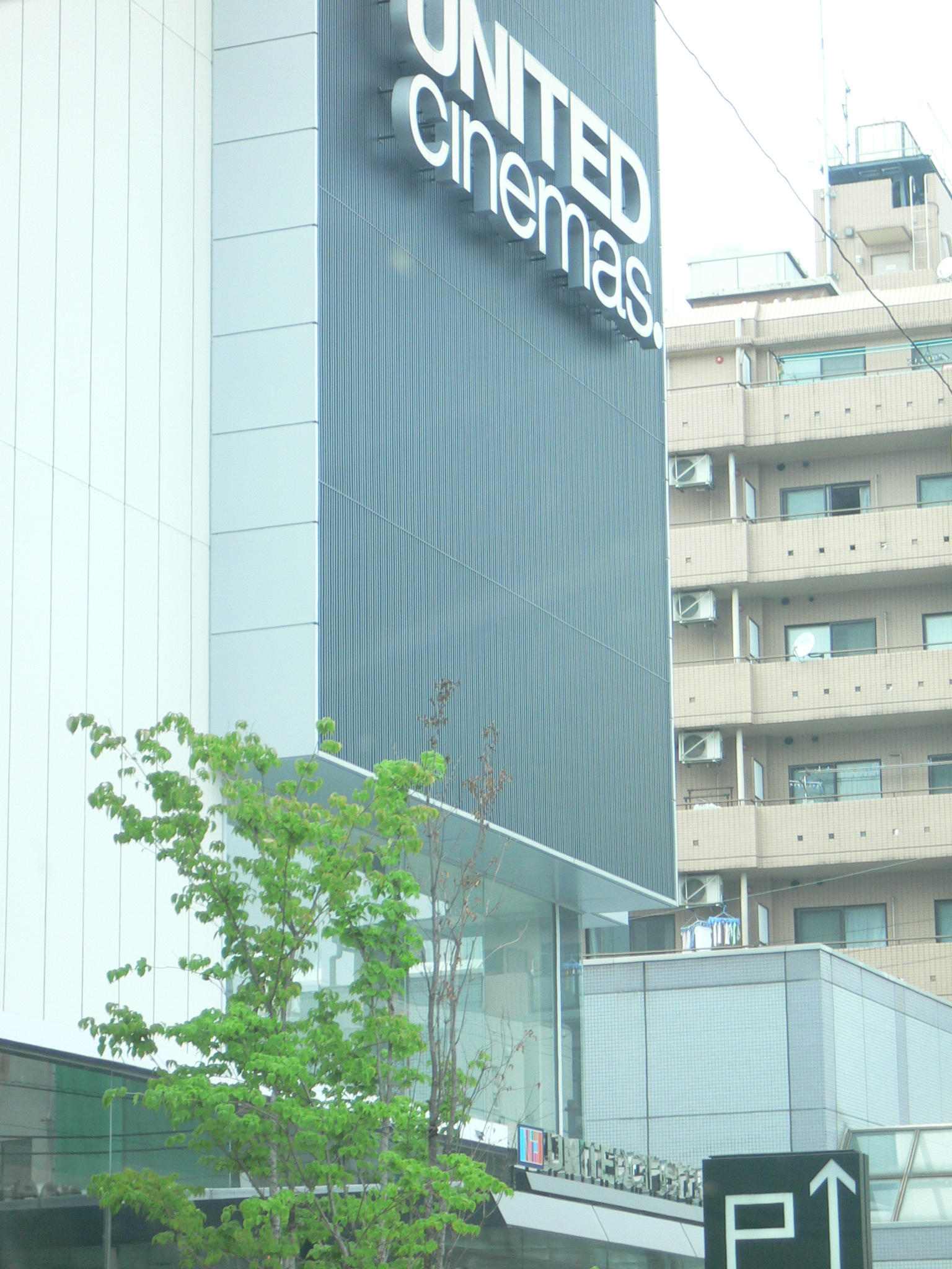 United cinemas Toshimaen(Movie cinema/United Cinemas International),Nerima W, Tokyo.